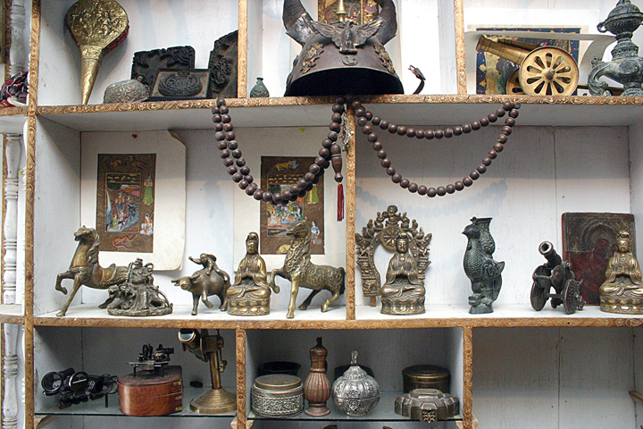 Dozens of antique shops can be found on Kabul's Chicken Street and hold an impressive amount of material for the visitor.